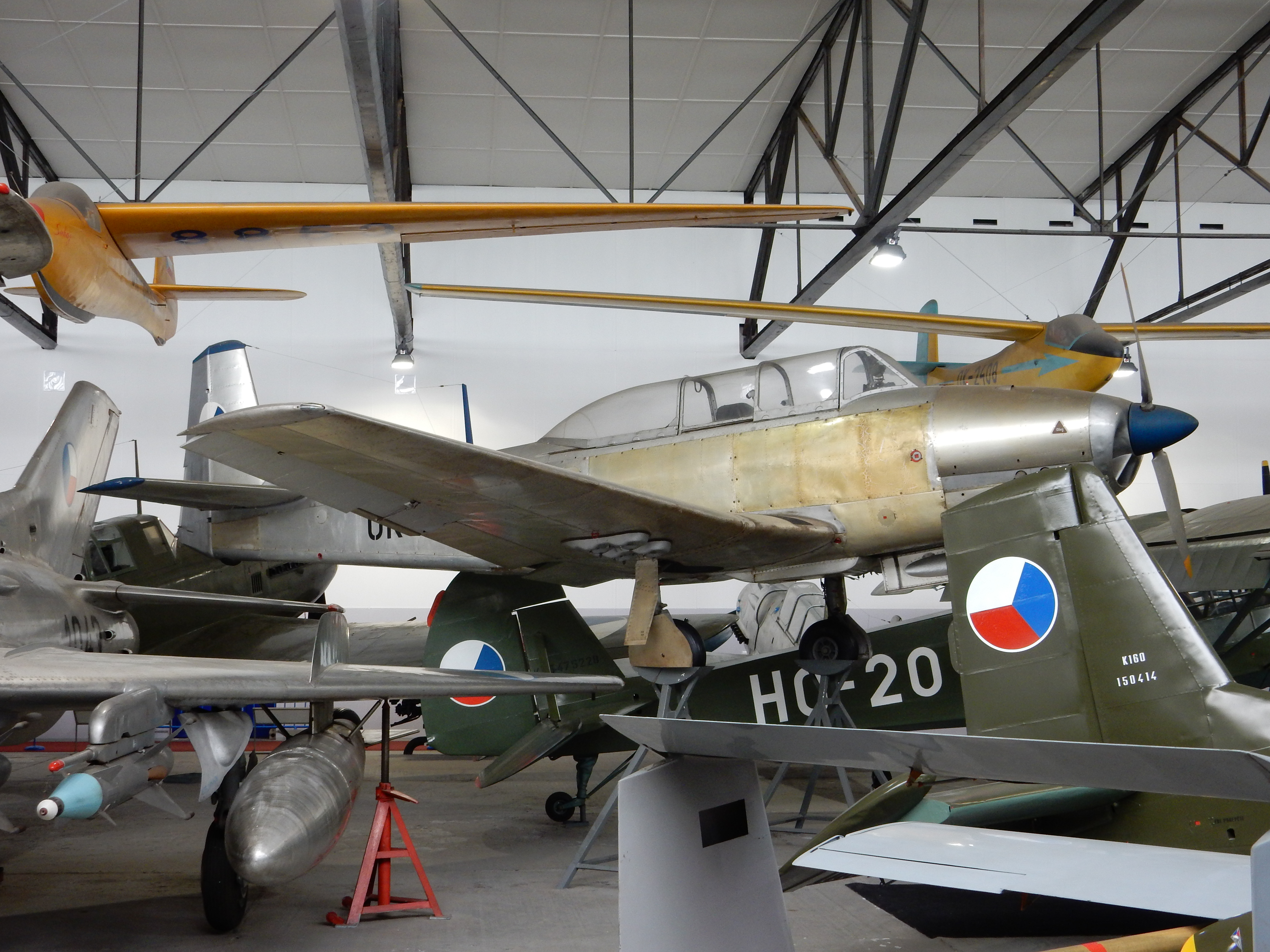 Trainer VZLU TOM-8 at Prague Aviation Museum, Kbely